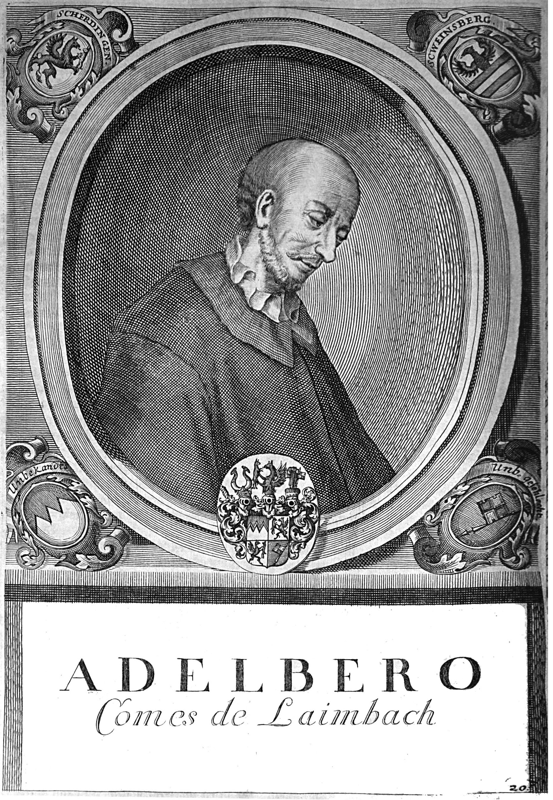 Adalbero von Würzburg 1045-1090 Bishop of Würzburg.